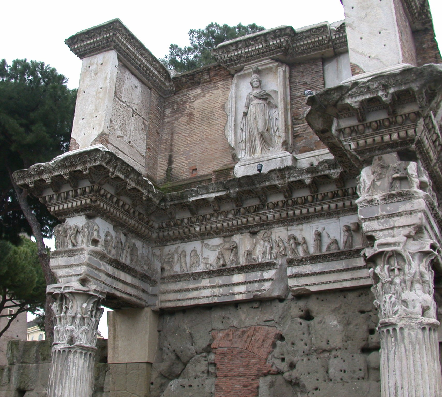 The "Colonnacce" in the "Foro di Nerva", Rome, Italy.